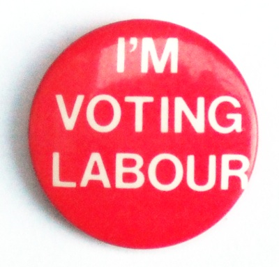 A badge stating that the wearer is voting for the UK Labour Party. From the late 20th century.